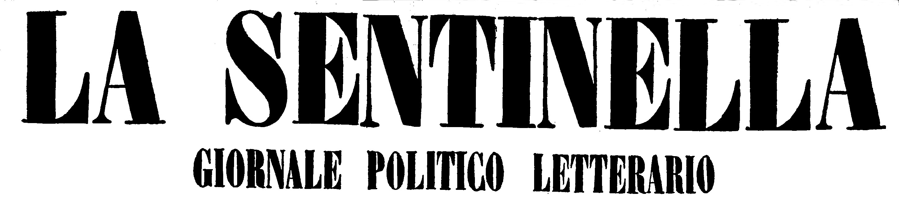 Nameplate of «La Sentinella» from 1st September 1859 edition